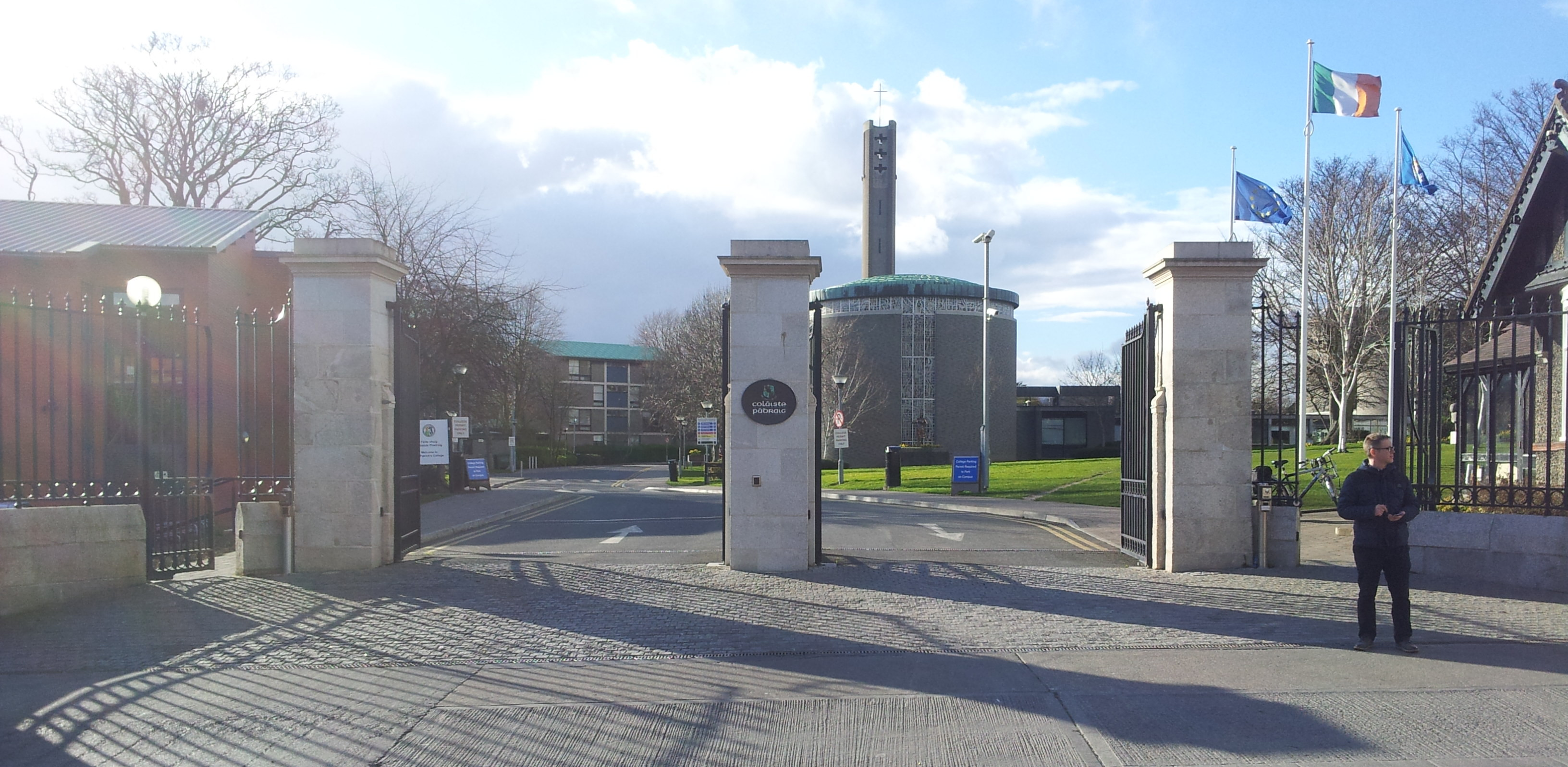 Entrance to St Patrick's College, Drumcondra, Dublin